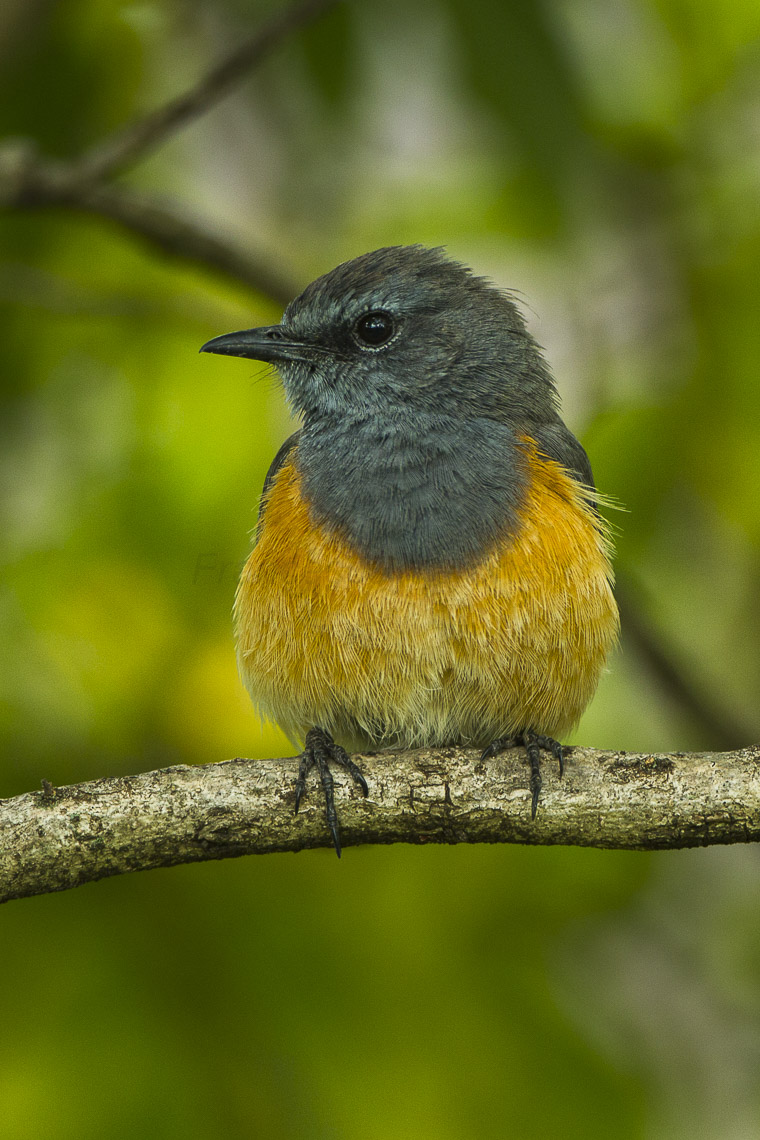 Little Rock-Thrush - Kenya_S4E9412